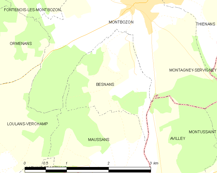 Map of French municipality